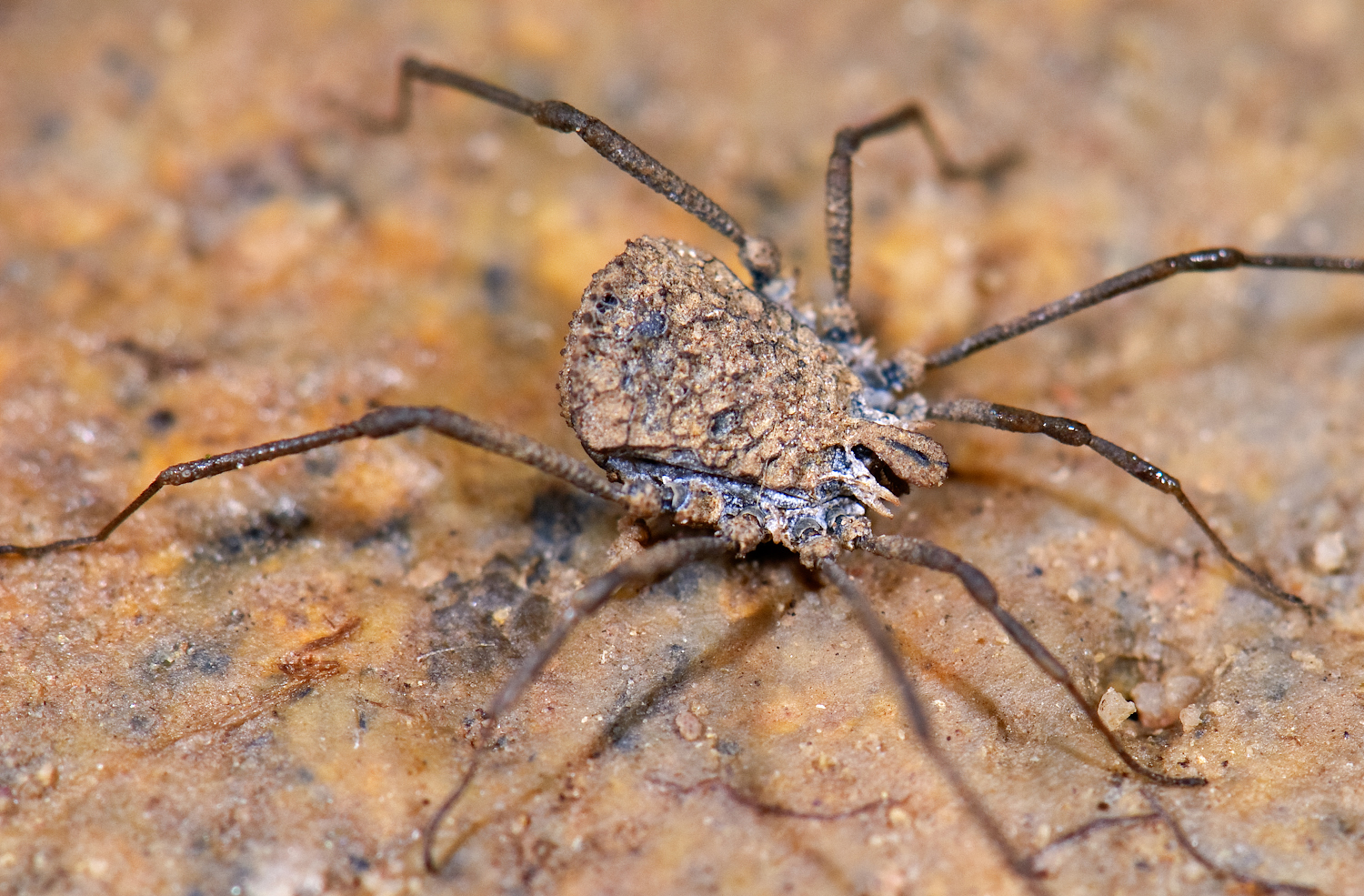 an Ortholasmatine opilion from N of Berkeley, CA note the interesting cephalic hood extending over the chelicerae & palps the sculptured dorsal surface of the animal also captures soil